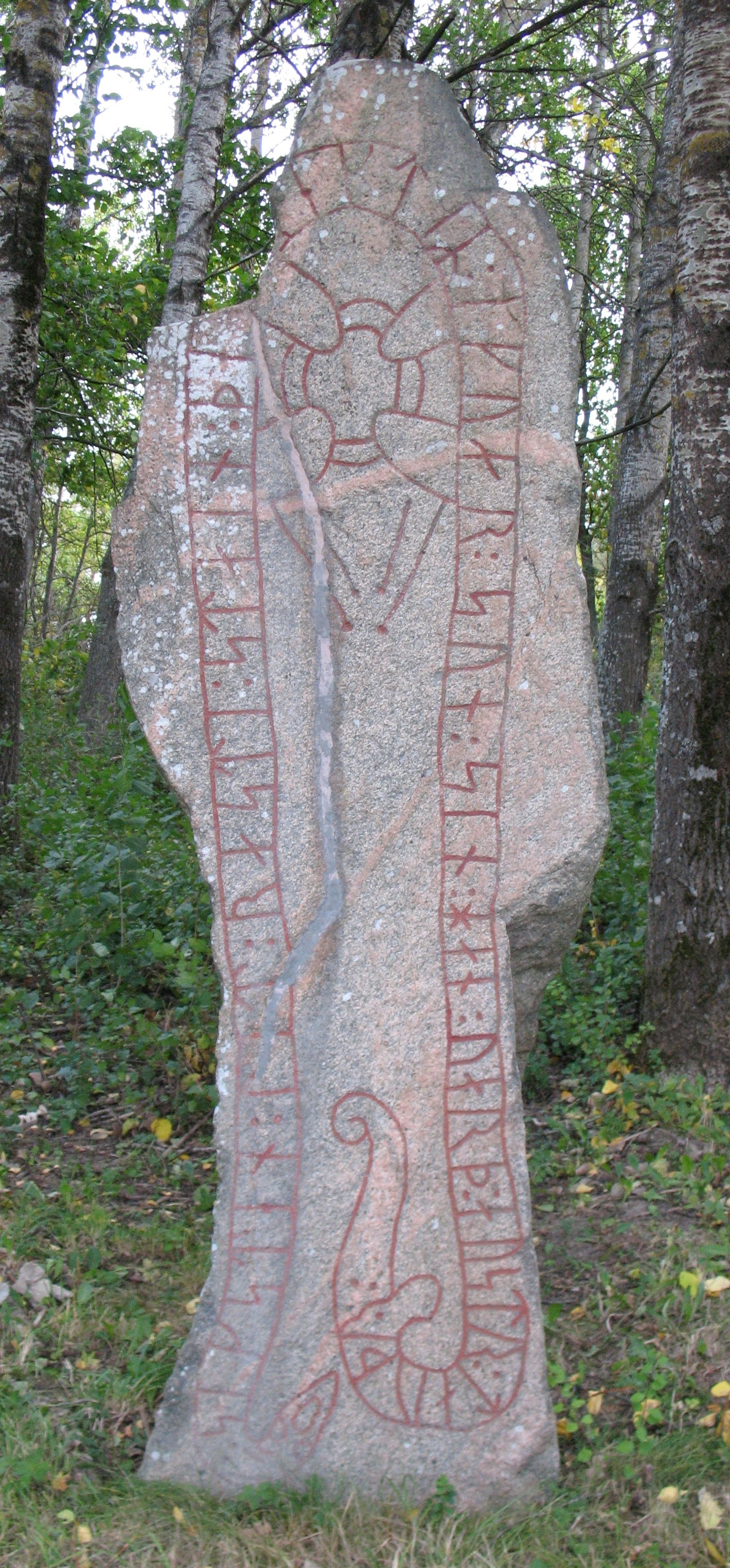 Runestone Ög 30 in Skjorstad, Östergötland.